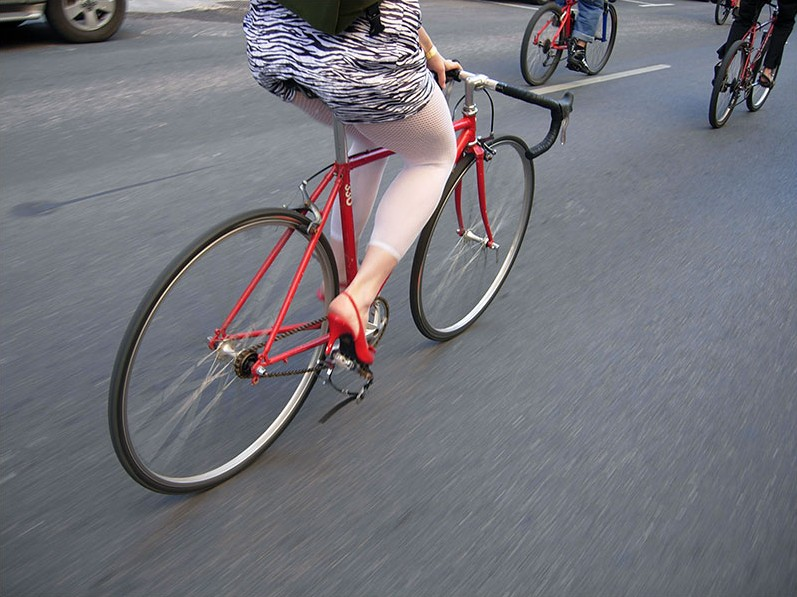 Red high heels to match your bike of course, also, single-speed bike, smart move.